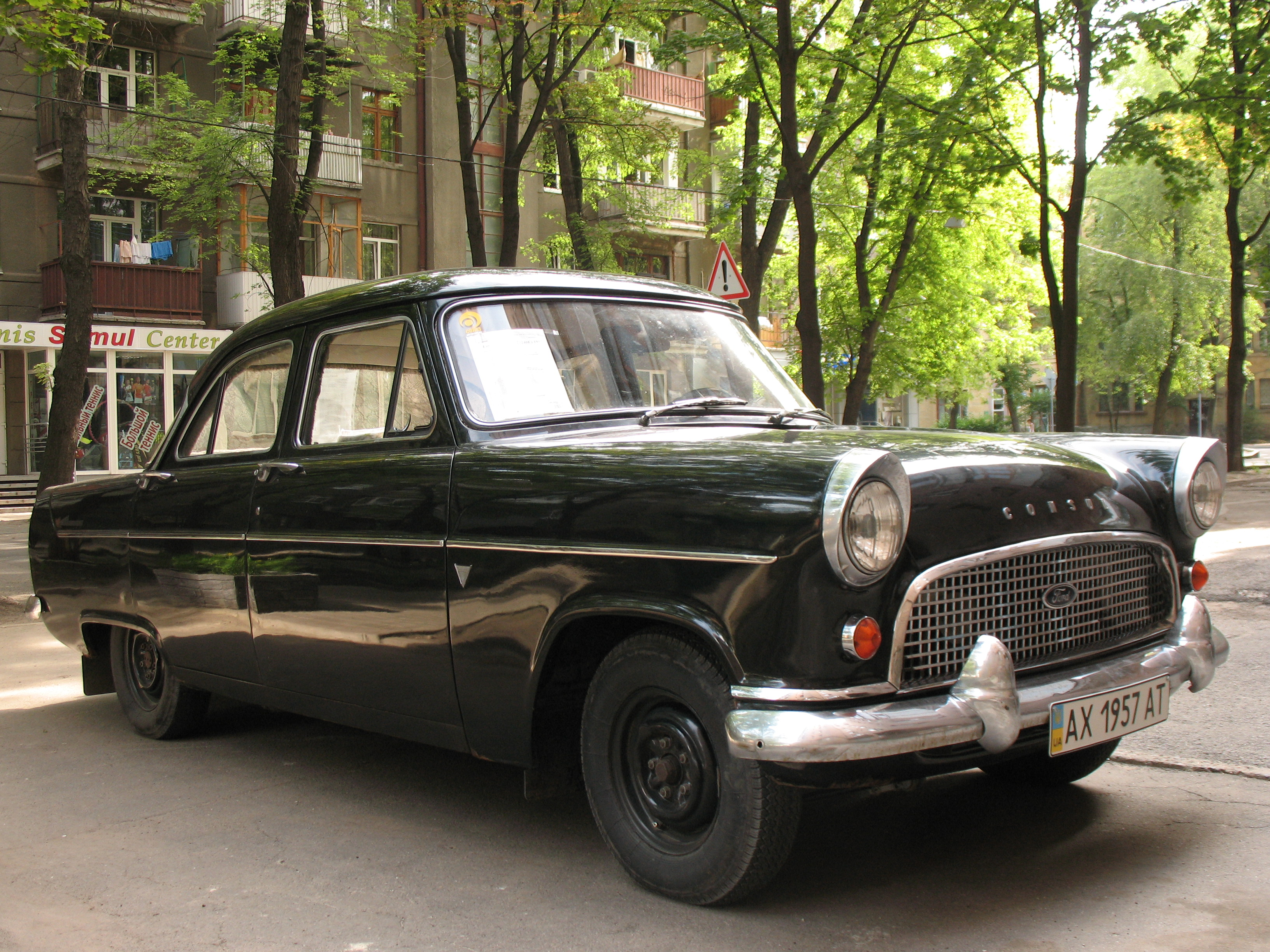 Ford Consul in Kharkov City.